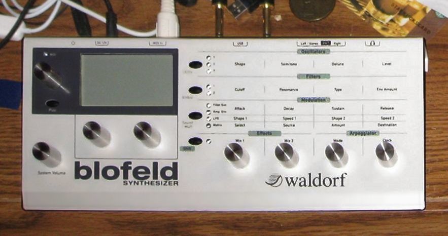 Waldorf Blofeld from stringbot's Bedroom Rig Fall '08